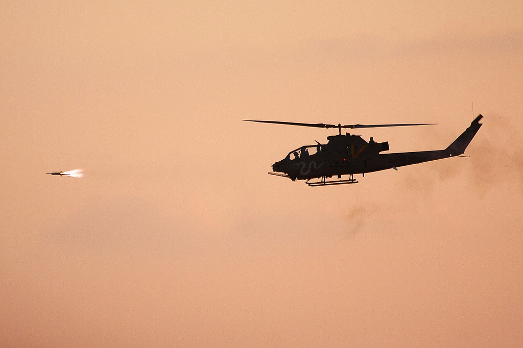 A 'Viper' attack helicopter launches a missile toward a marked target during the 162nd Pilot's Training Course graduation ceremony. Featured as Photo of the Day on February 12, 2012. Photo by: Carmel Horowitz. The Israel Defense Forces Facebook The Israel Defense Forces blog Follow us on Twitter